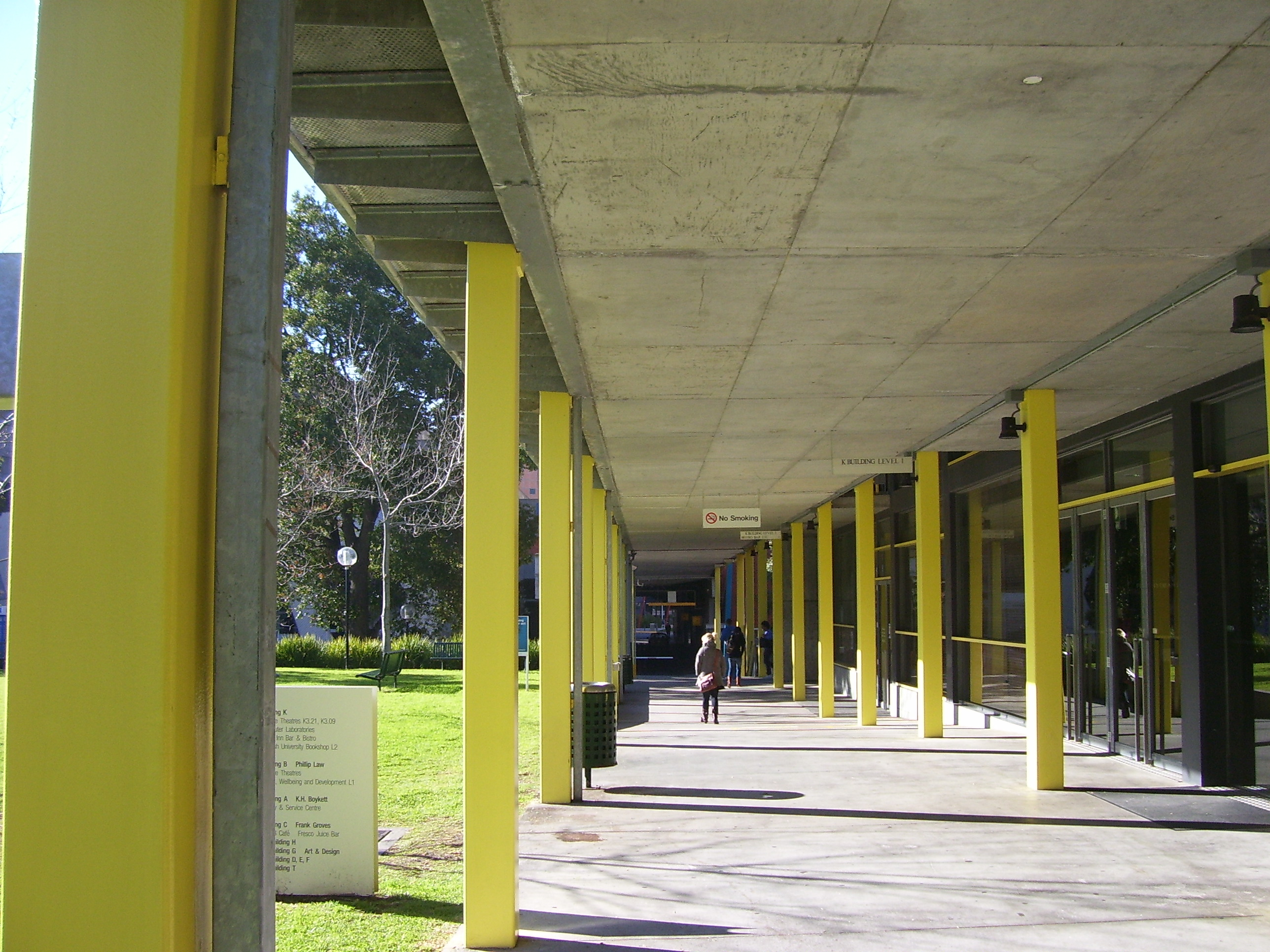 A photo of K block walkway on Monash University's Caulfield campus